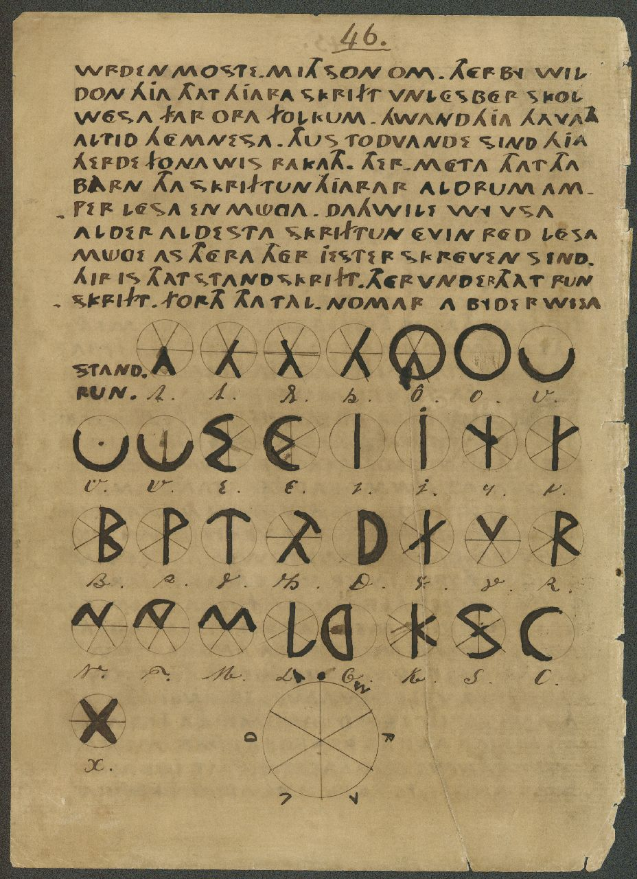 Page 48 of the manuscript of the Oera Linda Book. Purports to show how alphabet letters (and runes?) were derived from a basic six-spoked wheel shape...